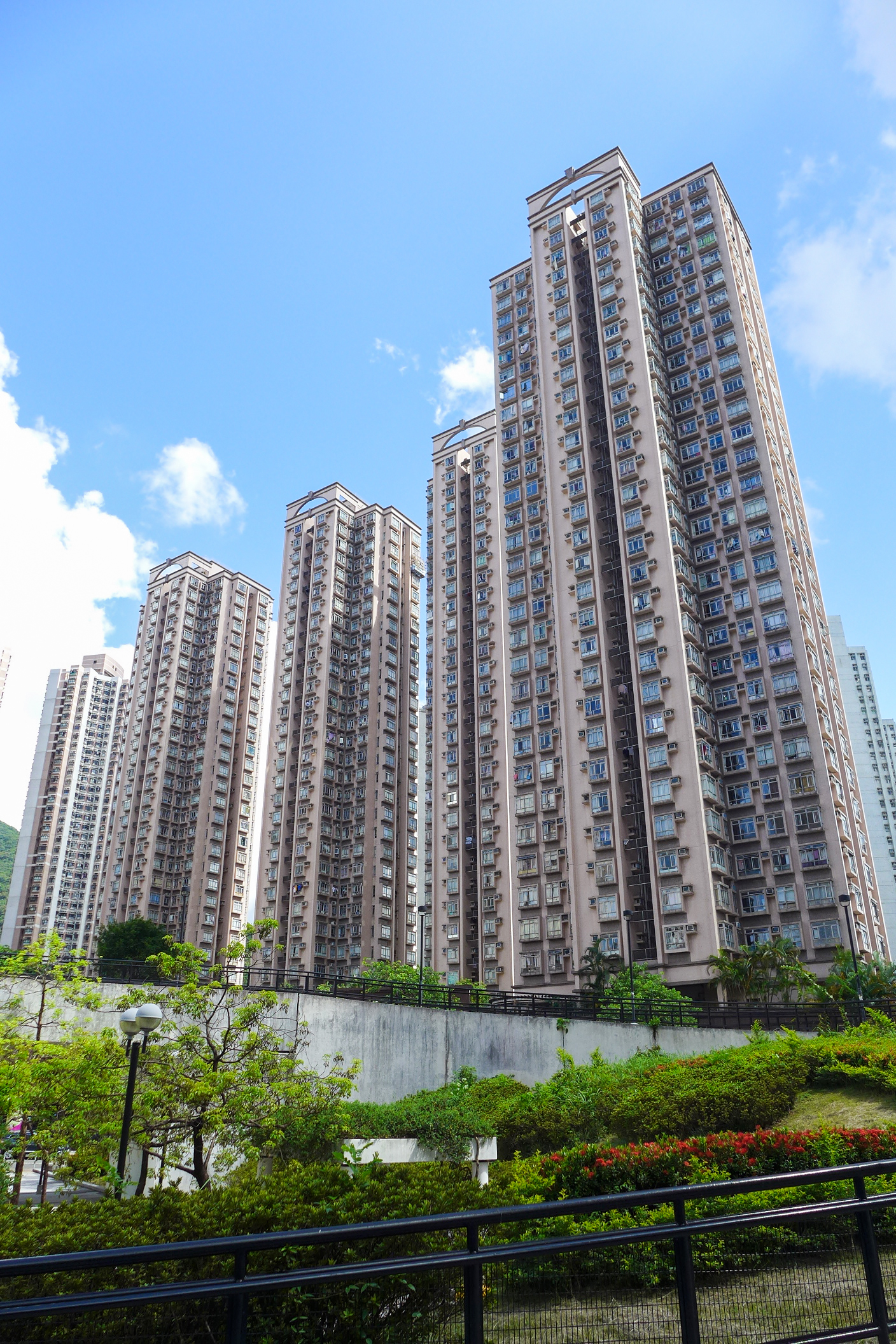 Sunshine City Phase 3